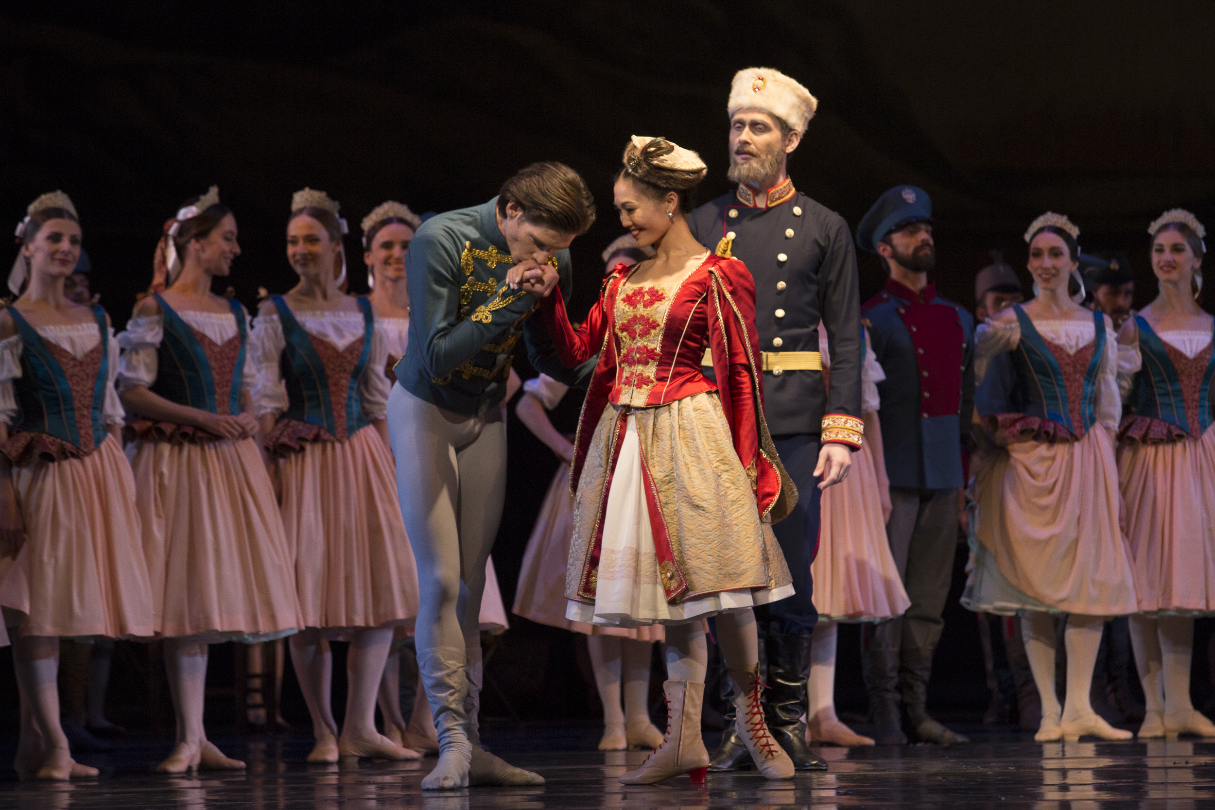 "Swan Lake" in Krzysztof Pastor's choreography, Polish National Ballet, dancers: Vladimir Yaroshenko as Tsarevich Nicky, Yuka Ebihara as Mathilde Kschessinska & Robert Bondara as Tsar Alexander, set and costume design by Luisa Spinatelli